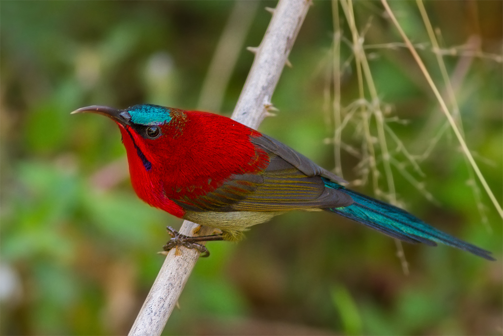 Birds of Himalayas